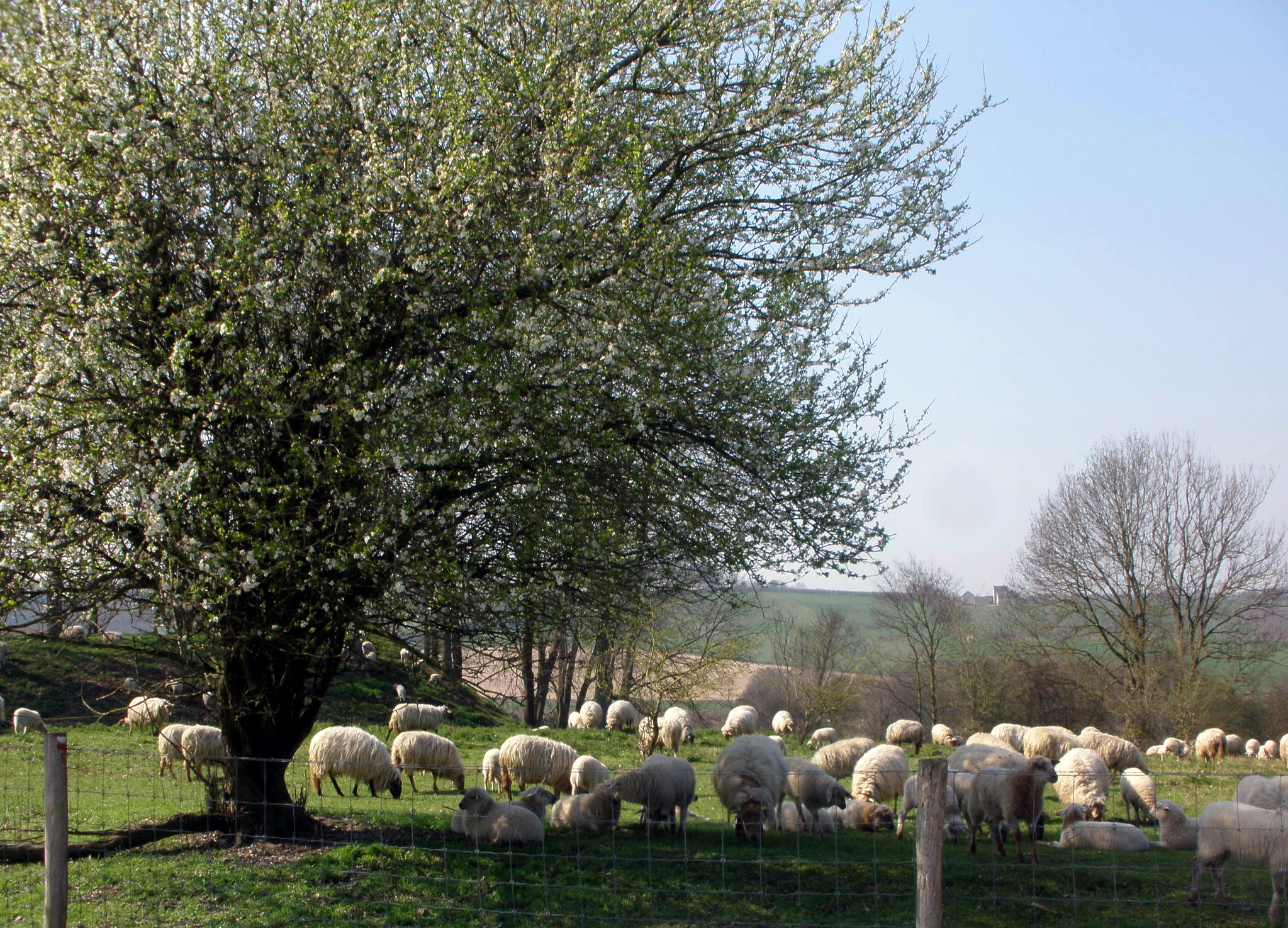 Maastricht, the Netherlands. View of a flock of sheep in Spring on mount Sint-Pietersberg, South of the city.